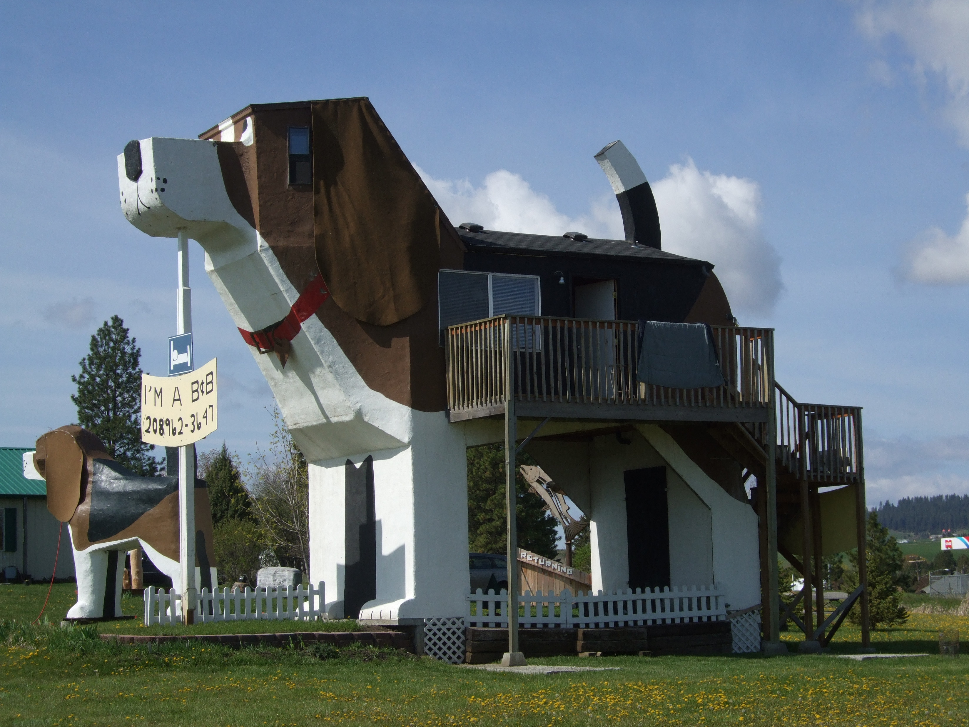 Sweet Willy Dog Park Park Inn